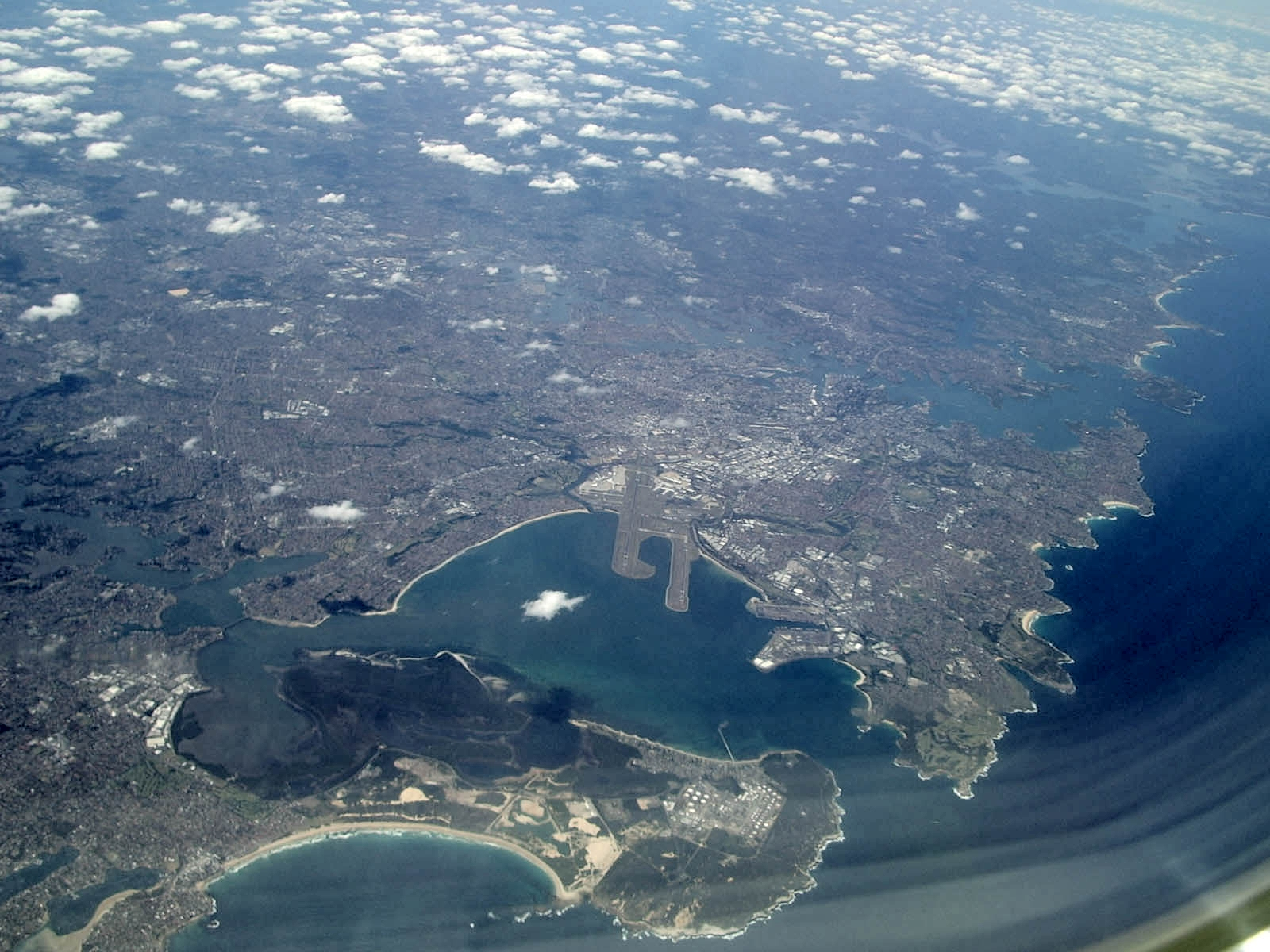 Aerial photograph taken on a flight from Newcastle to Melbourne. Taken by Tim Starling. Pentax Optio S30.